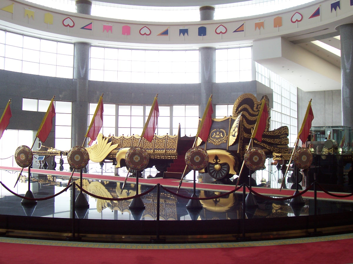 Inside Royal Regalia Building, Bandar Seri Begawan, Brunei Darussalam.